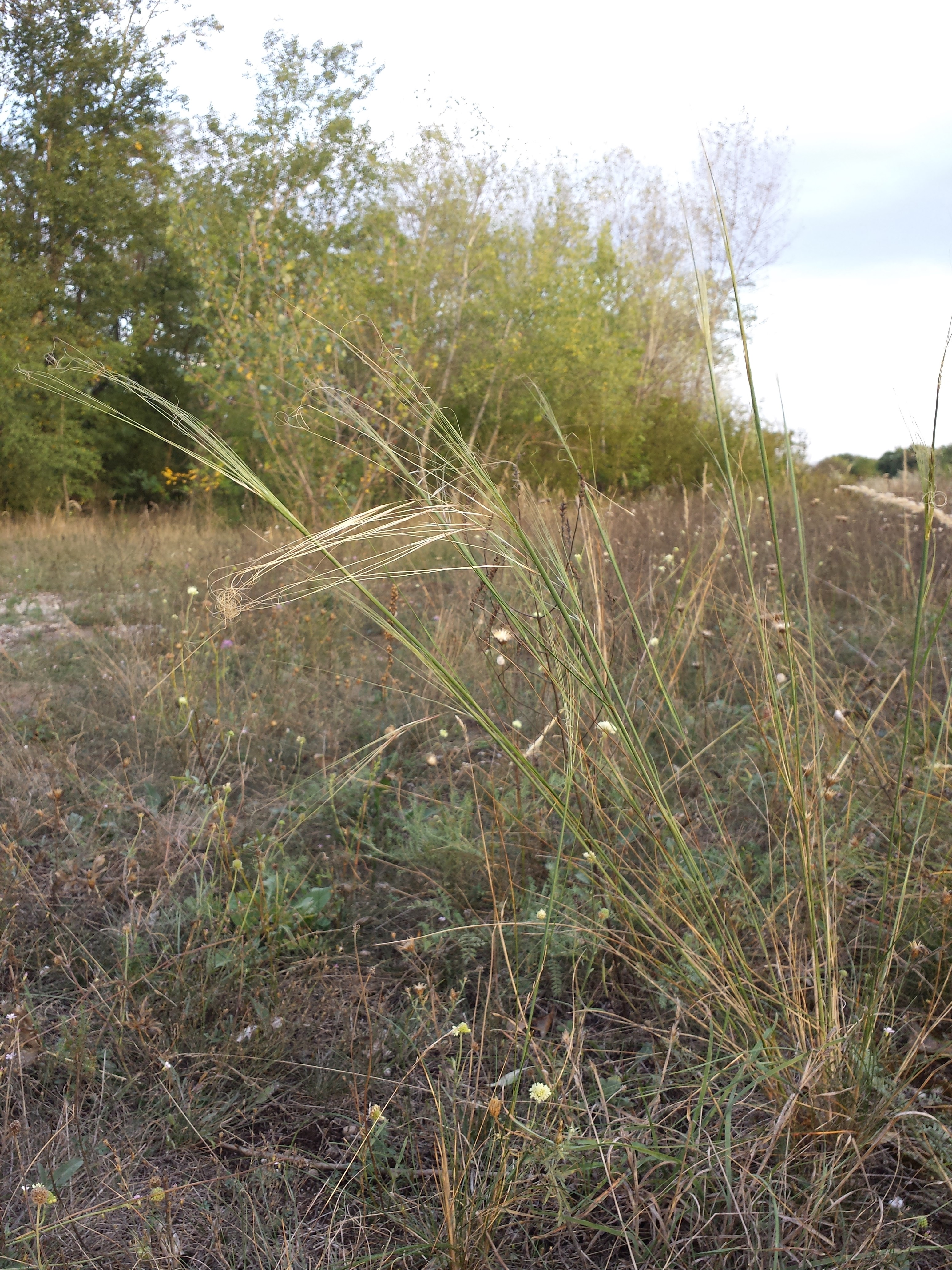 Habitus Taxonym: Stipa capillata (ss Fischer et al. EfÖLS 2008 ISBN 978-3-85474-187-9) Location: abandoned marshalling-yard Breitenlee, Vienna-Donaustadt - ca. 160 m a.s.l. Habitat: dry grassland